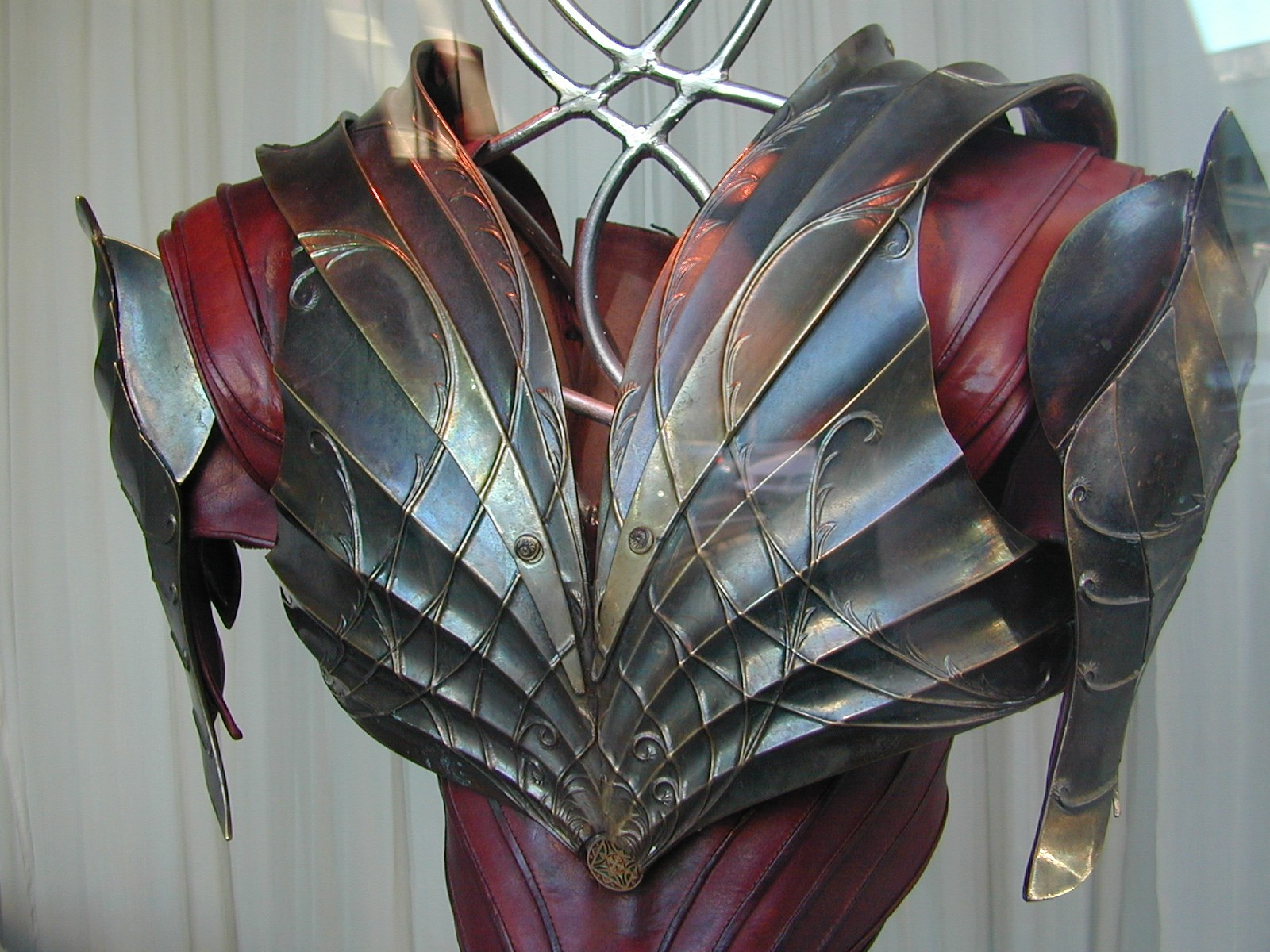 Elven armour from the The Lord of the Rings film trilogy.